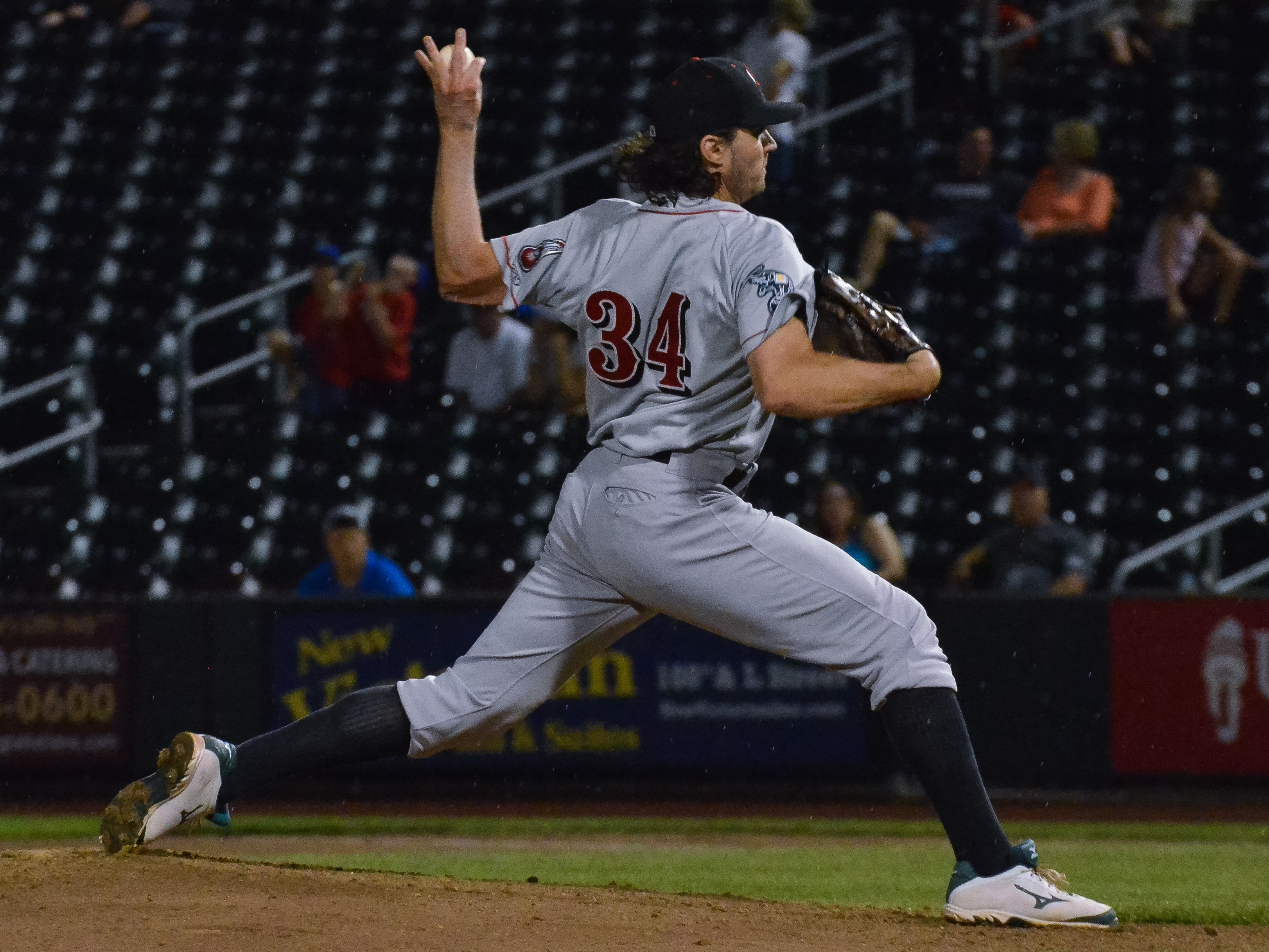 Minda Haas Kuhlmann | 2015 USAGE INSTRUCTIONS: You are welcome to share or publish to your own site or social media account, but you MUST credit me, Minda Haas, or by my Twitter handle (@minda33) or Instagram (minda.haas).